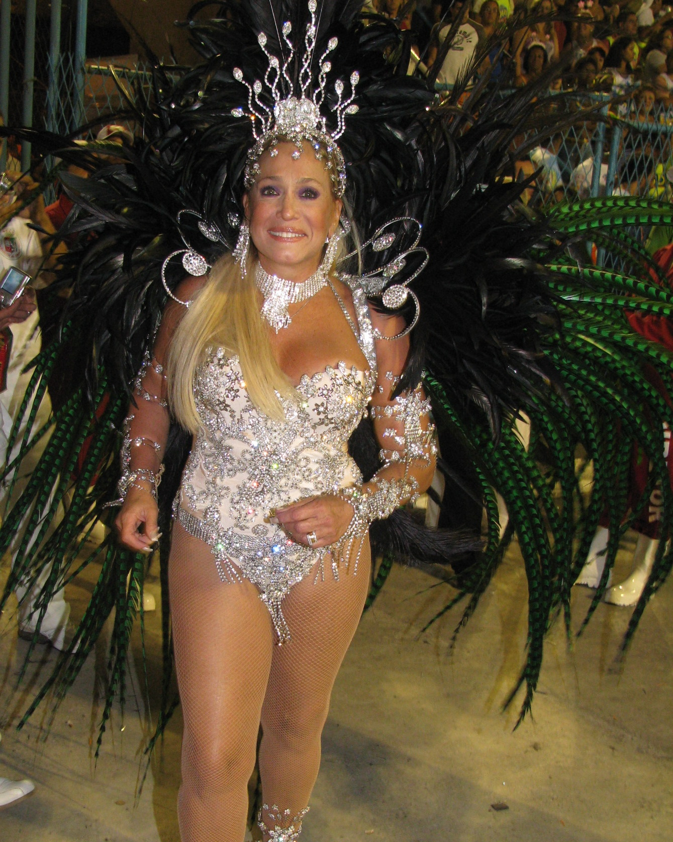 The Brazilian Actress, Suzana Vieira.